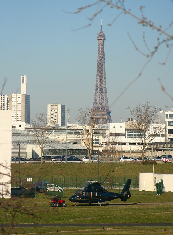 SA365 Dauphin at the Heliport de Paris with the Eiffel Tower in the background